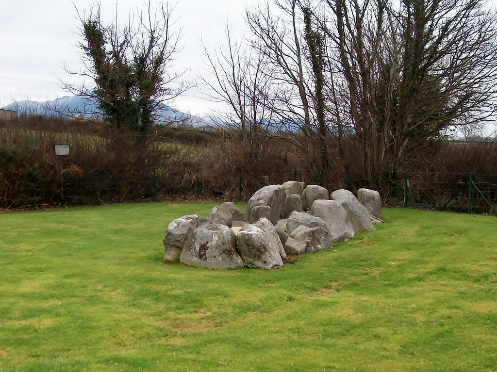 The Dunnaman Court Grave from the west